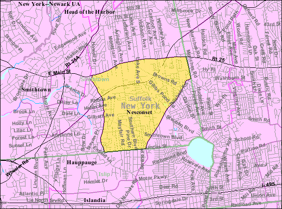 U.S. Census 2000 reference map for Nesconset